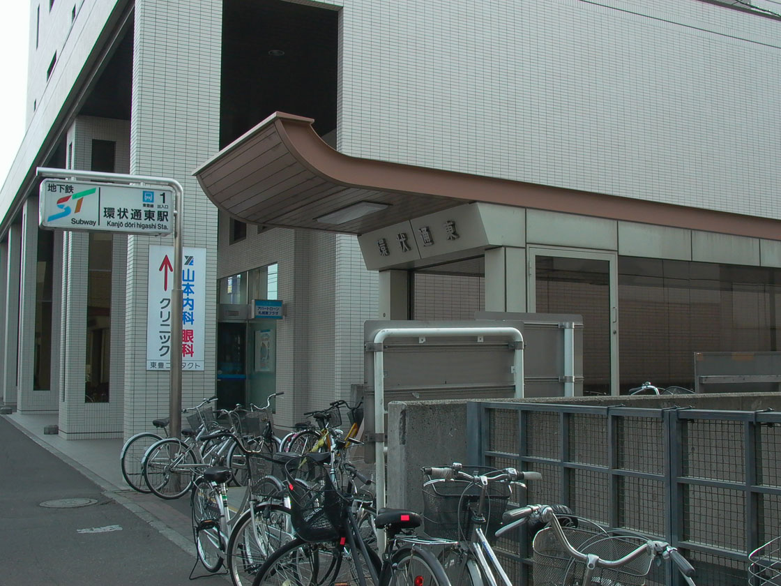 Kanjo Dori Higashi station, Sapporo, Hokkaido, Japan